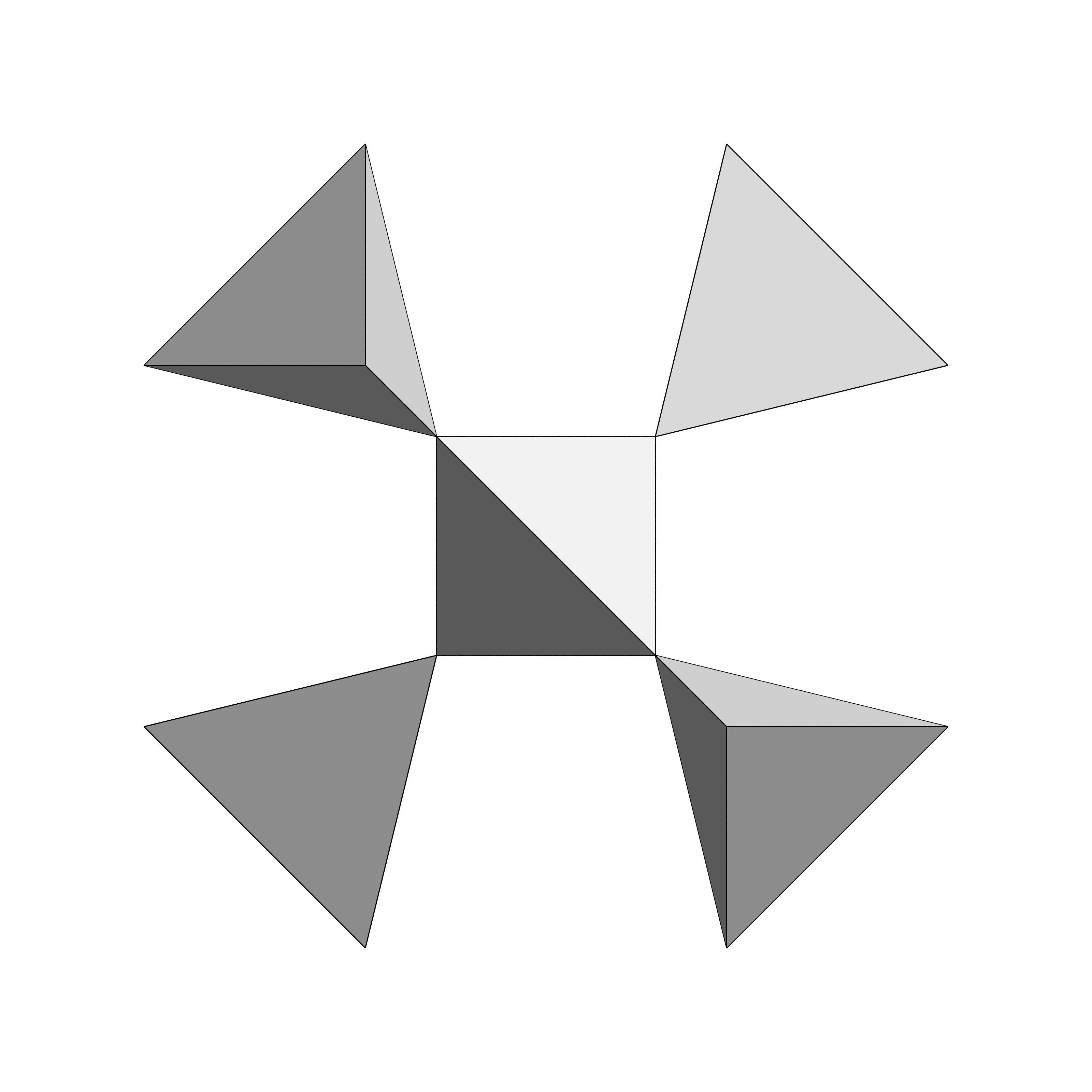 Branched 3er single silicate group of Zunyite Data from: Baur W. H., Ohta T. (1982): The Si5O16 pentamer in zunyite refined and empirical relations for individual silicon-oxygen bonds, Acta Crystallographica, Section B 38, pp. 390-401 Calculation of image data: Larry W. Finger, Martin Kroeker, and Brian H. Toby, DRAWxtl, an open-source computer program to produce crystal-structure drawings, J. Applied Crystallography V40, pp. 188-192, 2007 Rendering: POVRAY